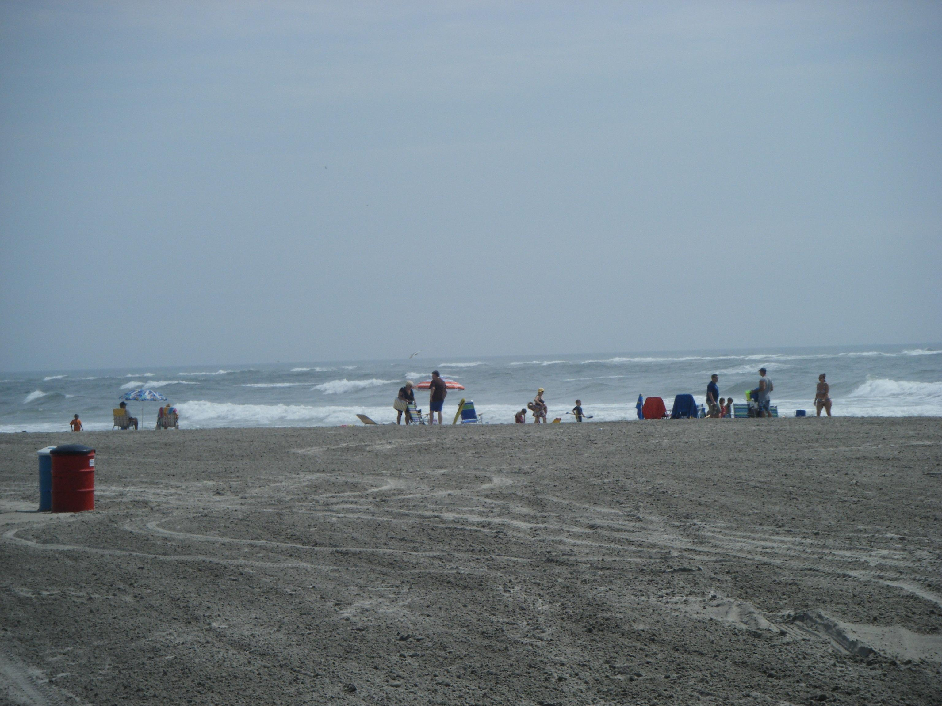 A view of the beach in North Wildwood, New Jersey at 3rd Avenue